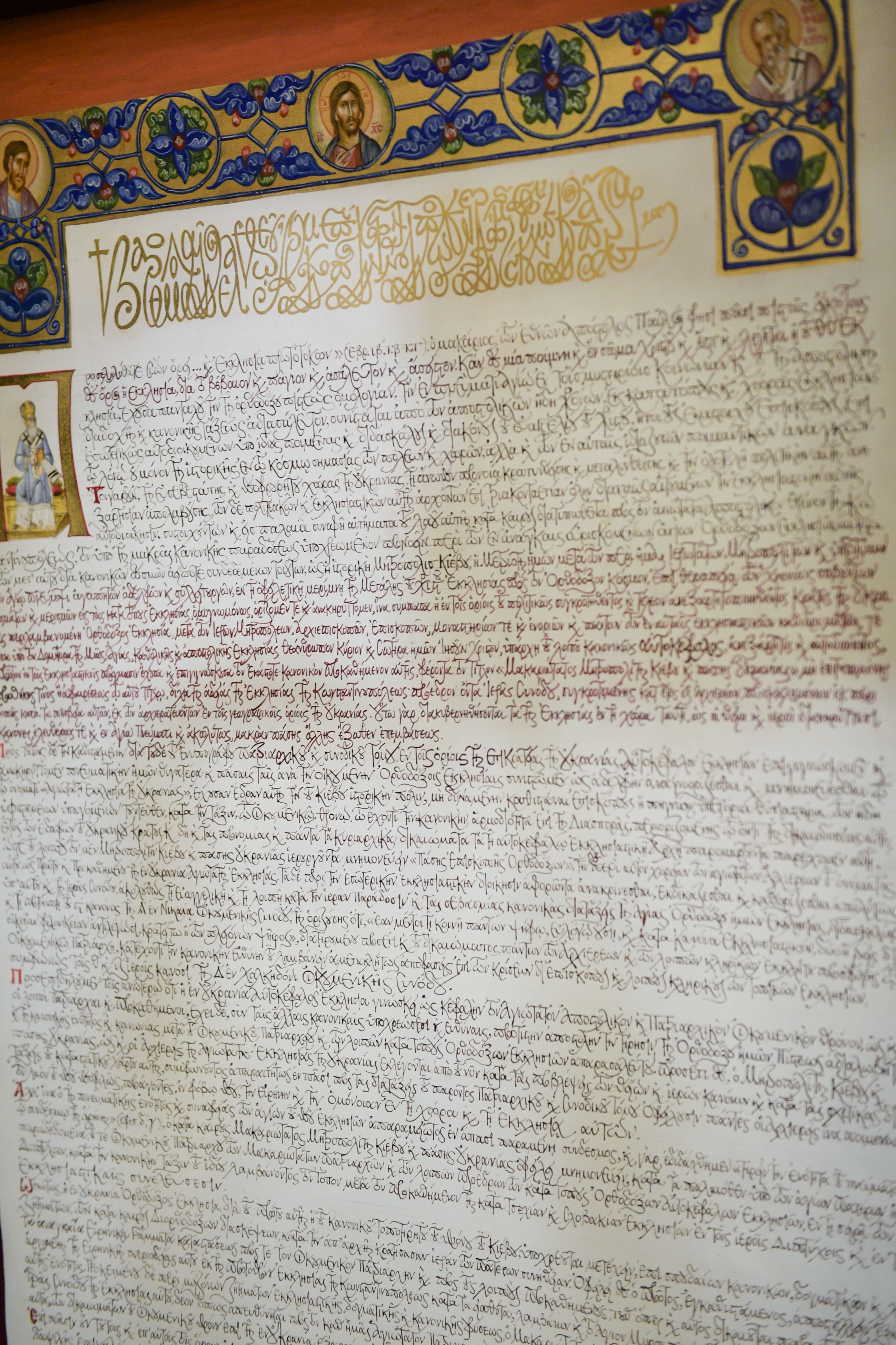 Working visit of the President of Ukraine Petro Poroshenko to the Turkish Republic (2019-01-05)